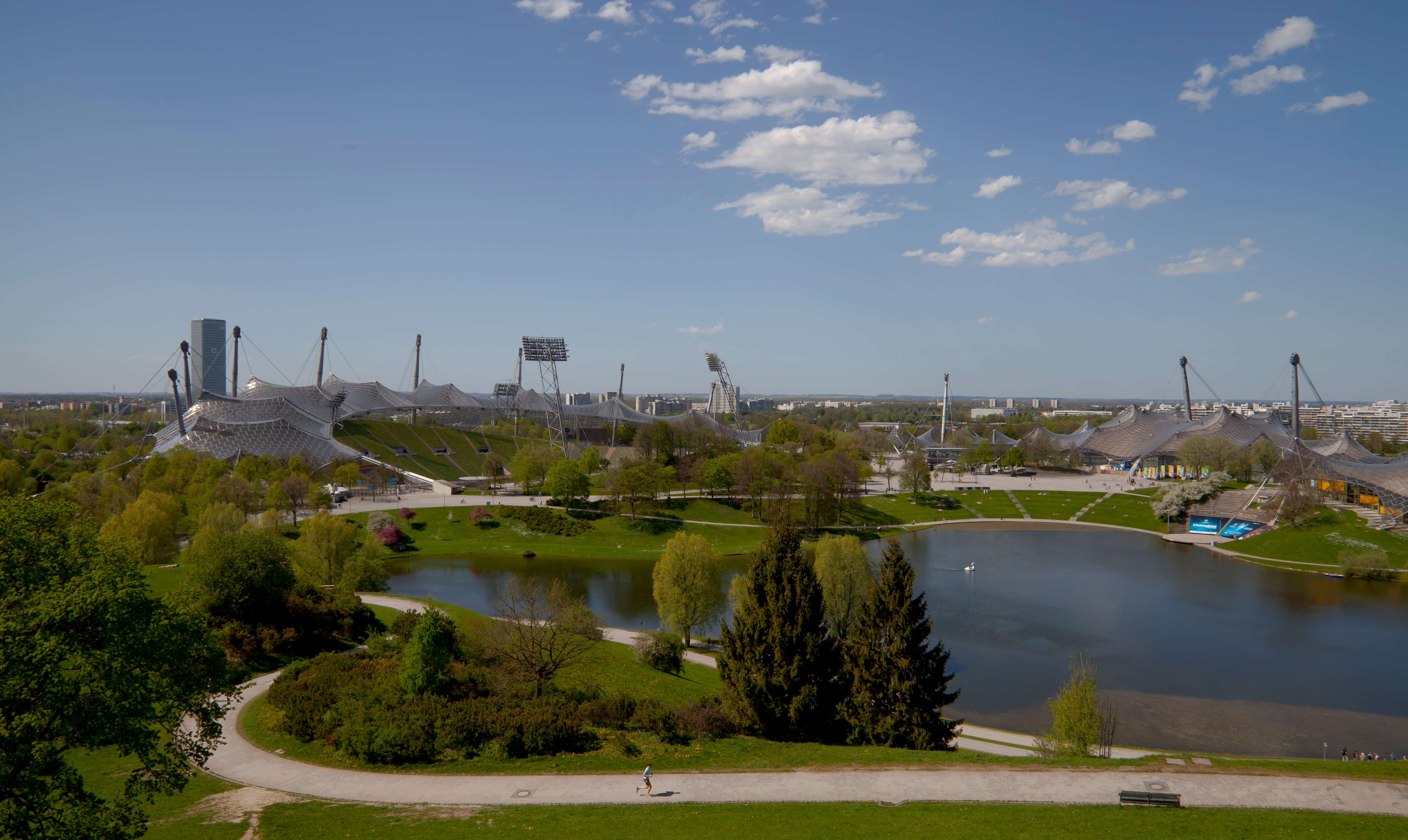 Olympic Park, Munich, Germany